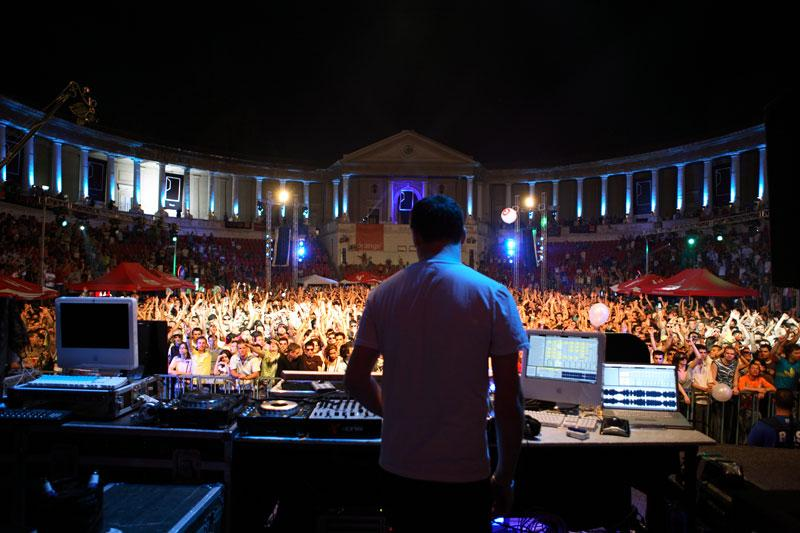 Sasha DJing in Arenele Romane in Bucharest, Romania